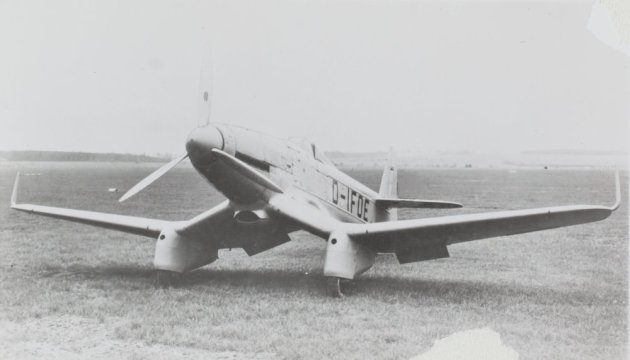 PictionID:38235035 - Catalog:Array - Title:Array - Filename:15_002289.TIF - -------Image from the Charles Daniels Photo Collection.----Album: German Aircraft.-----------PLEASE TAG these images with any information you know about them so that we can permanently store this data with the original image file in our Digital Asset Management System.-----------------SOURCE INSTITUTION: San Diego Air and Space Museum Archive